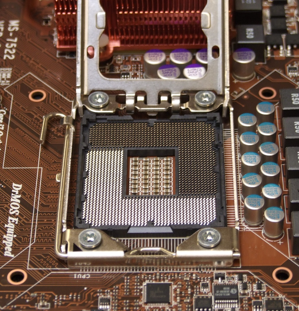 Land grid array socket 1366 for the Intel Core i7 CPUs, on an MSI X58 Pro-E motherboard.